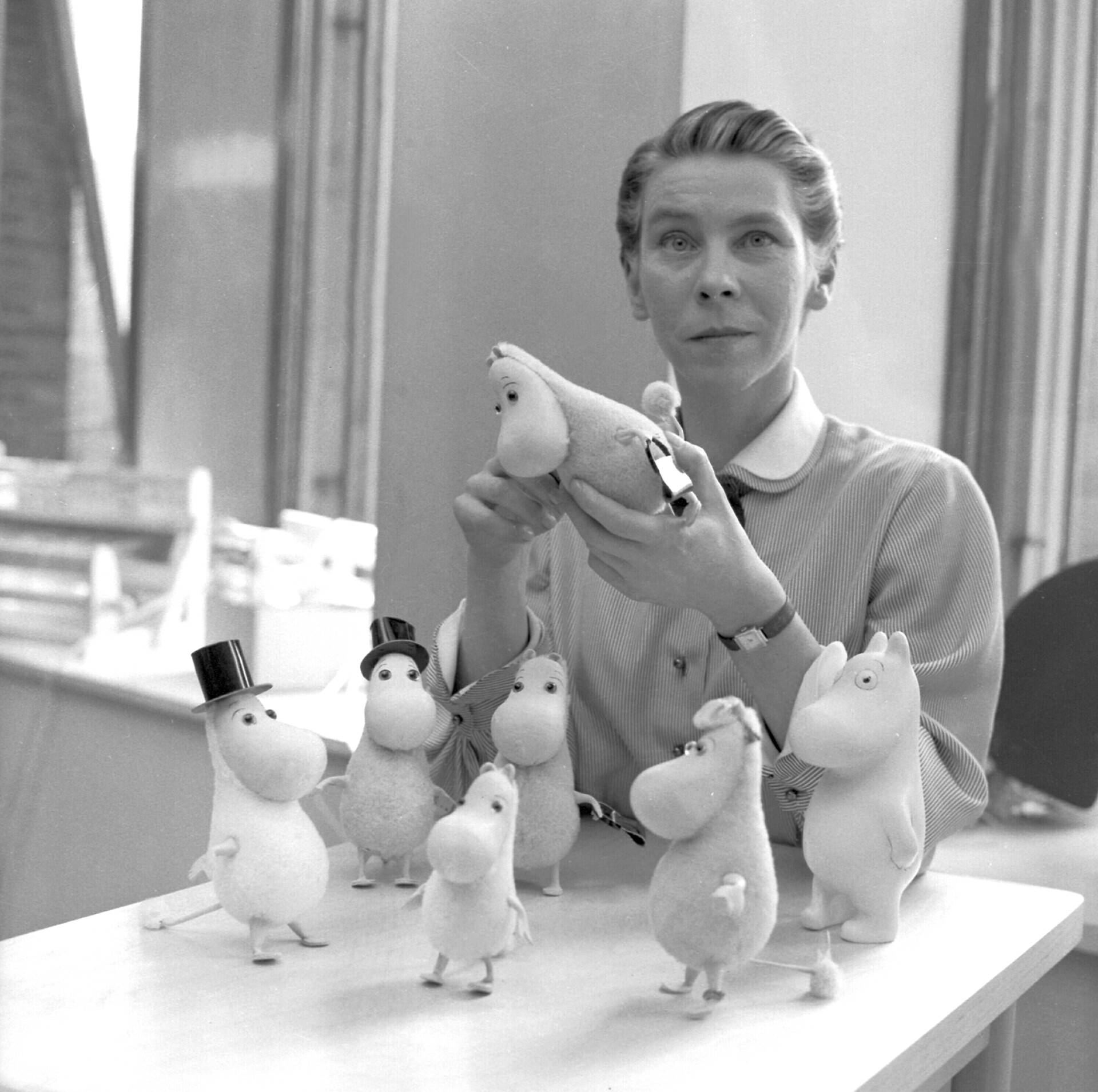 Artist and writer Tove Jansson in 1956.